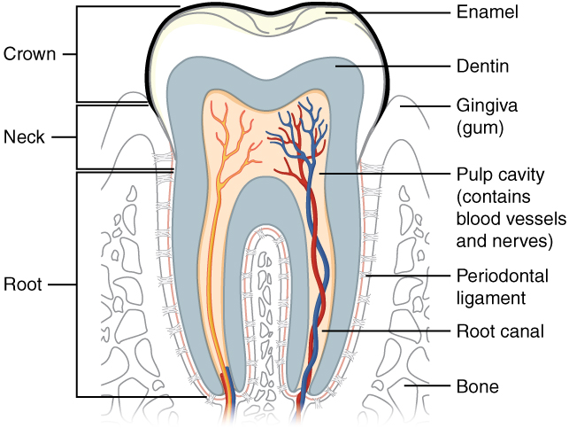 Illustration from Anatomy & Physiology, Connexions Web site. Jun 19, 2013.